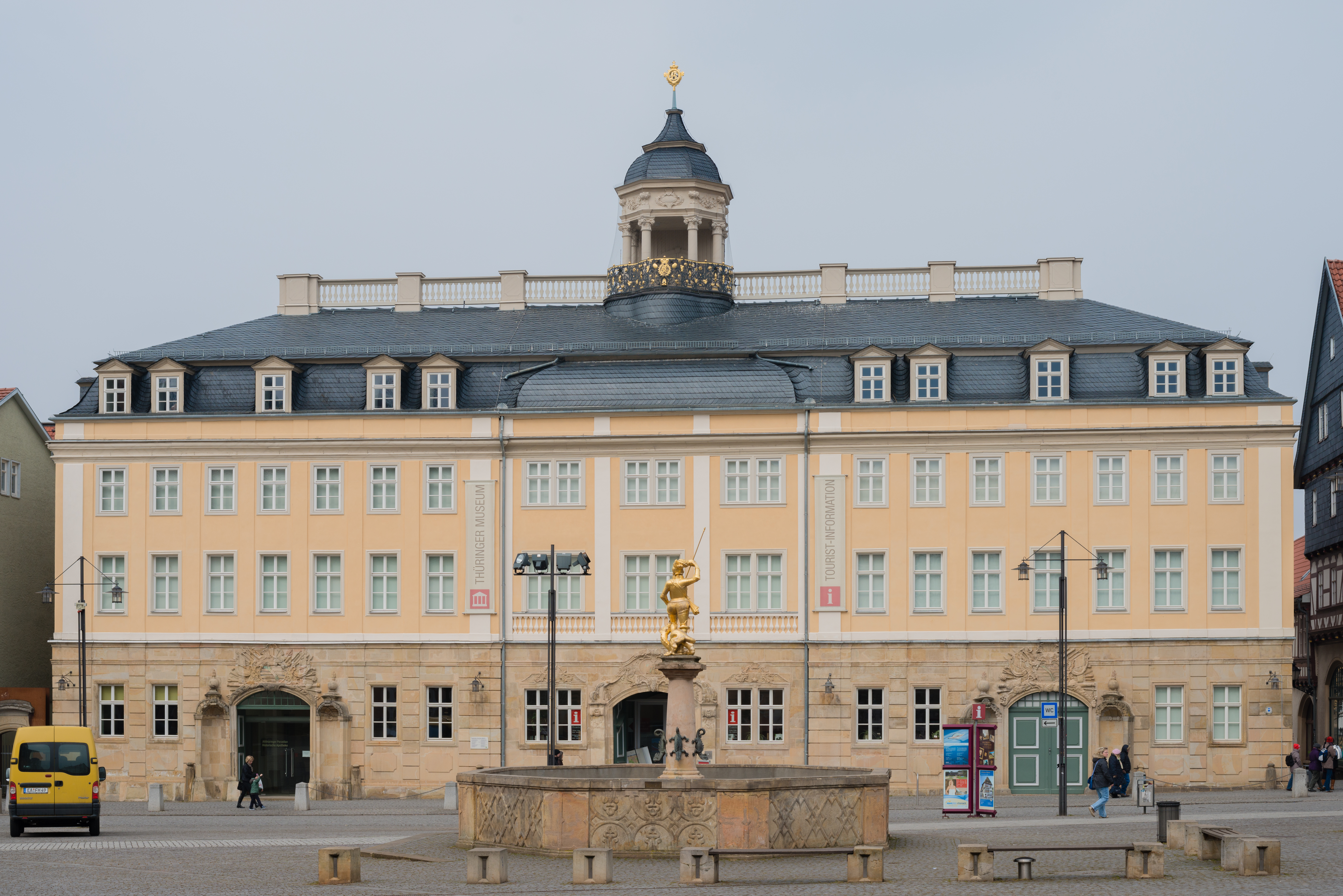 City palace, Eisenach, Thuringia, Germany.